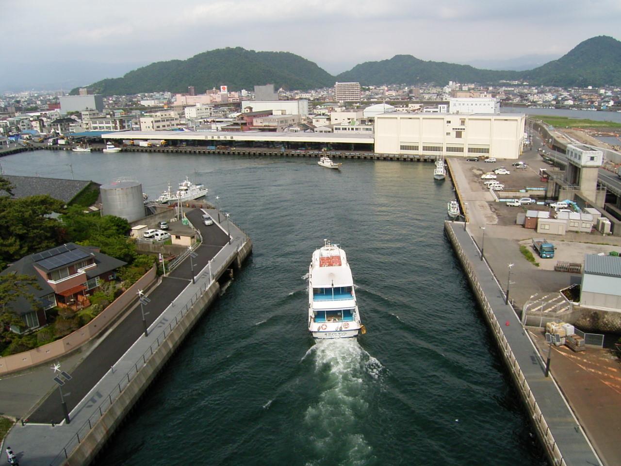 Numazu port Shizuoka Japan